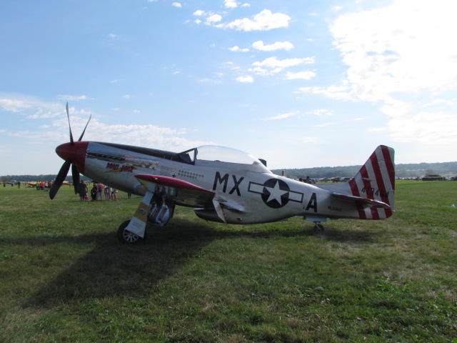 P-51D #45-11559 Mad Max at the Geneseo (NY) Air Show, July 2017